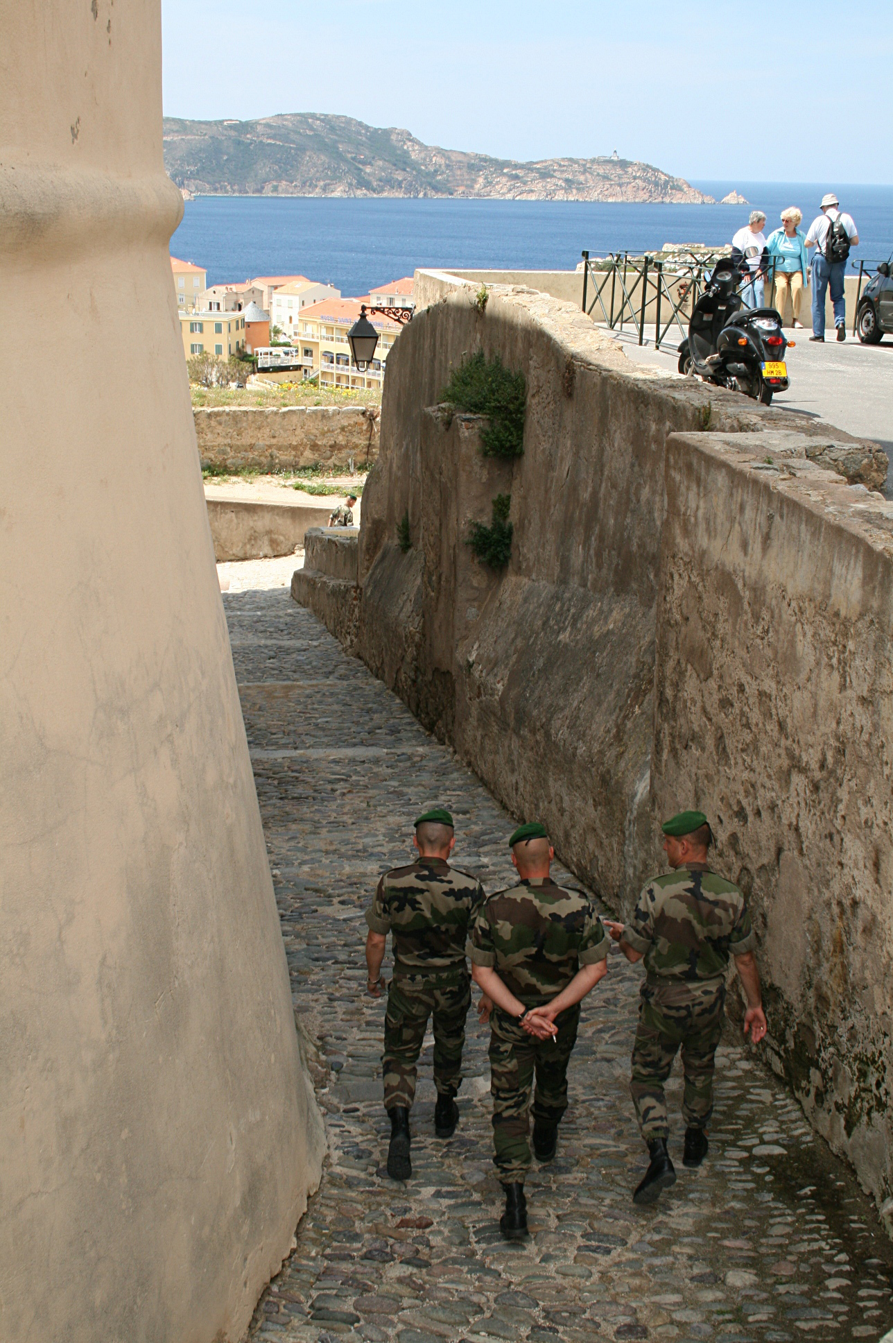 Calvi (Haute-Corse) - Legionaries of 2nd REP walking down the small alleyway along the parking lot overlooking the western part of the citadel (Chjappata San Ghjorghiu).